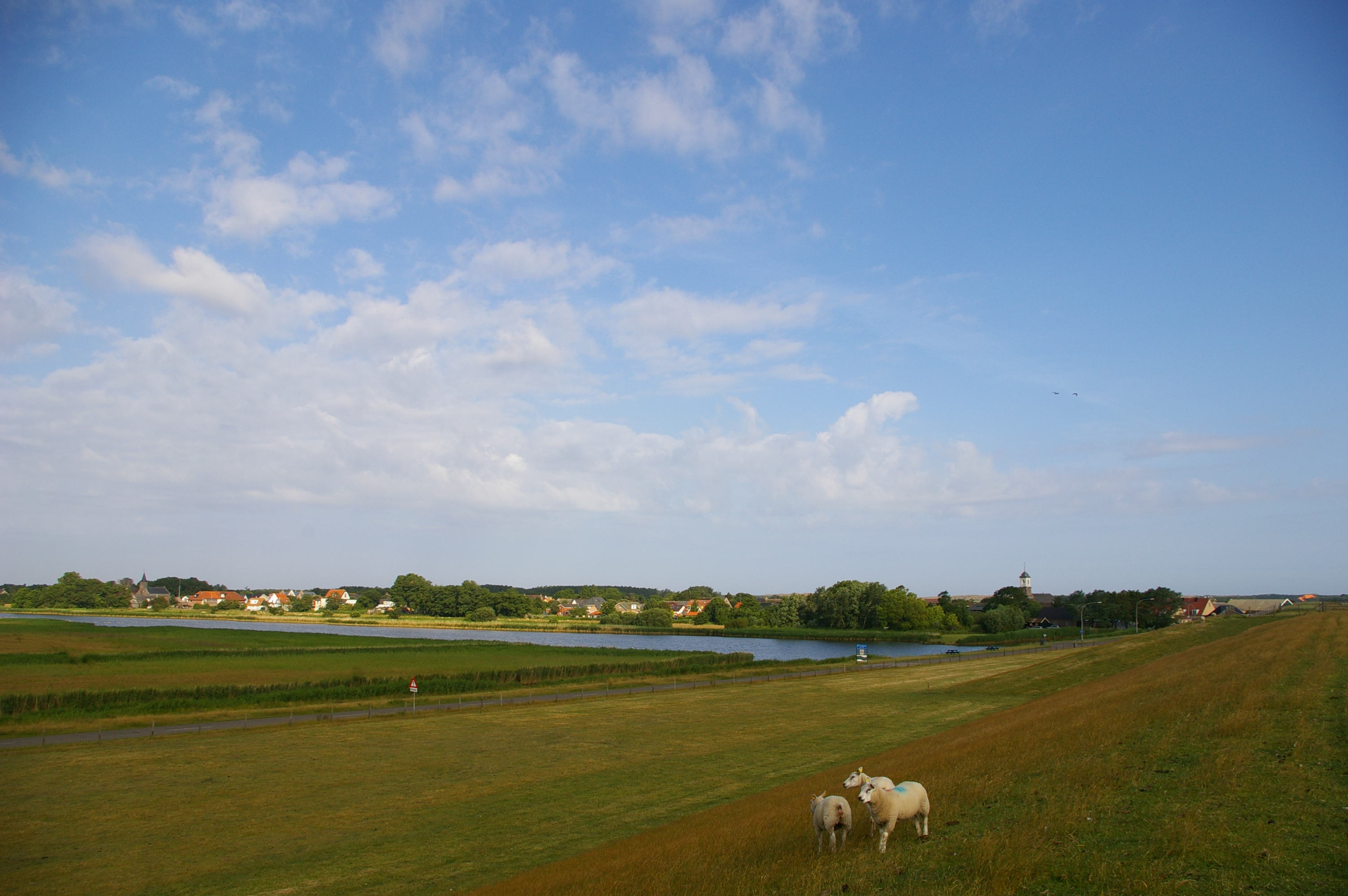 View of the village of De Cocksdorp, Texel, the Netherlands. Used on De Cocksdorp.